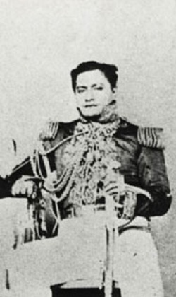 Tamatoa V, King of Raʻiatea and Tahaʻa. He was son of Queen Pōmare IV and adoptive heir of his uncle Tamatoa IV.